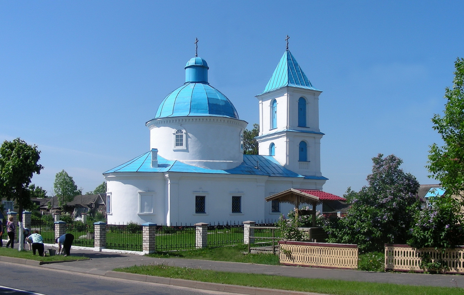 VERHNEDVINSK. St Nicholas orthodox church (1819).